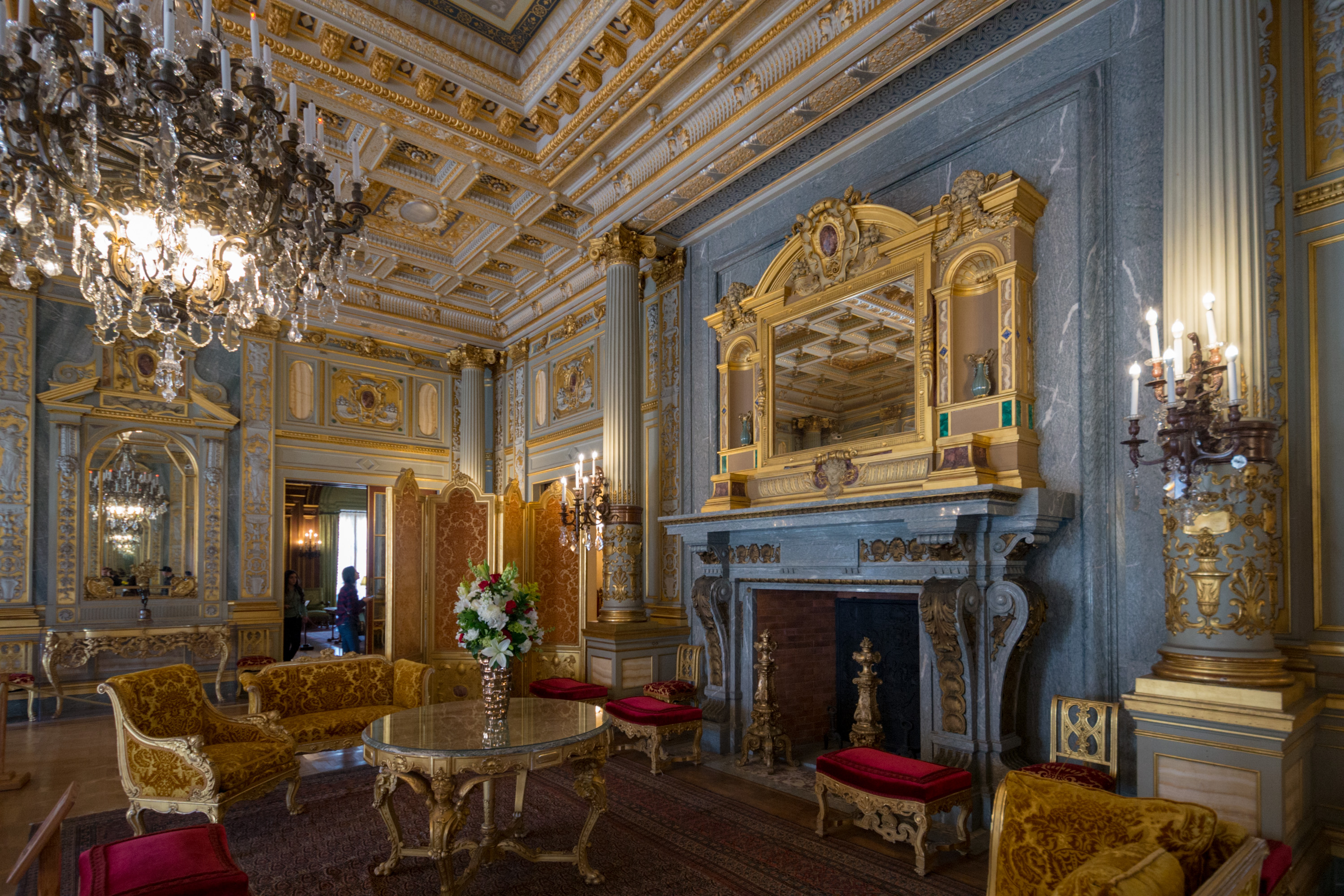 Interior photographs of the Breakers— Vanderbilt mansion in Newport Rhode Island